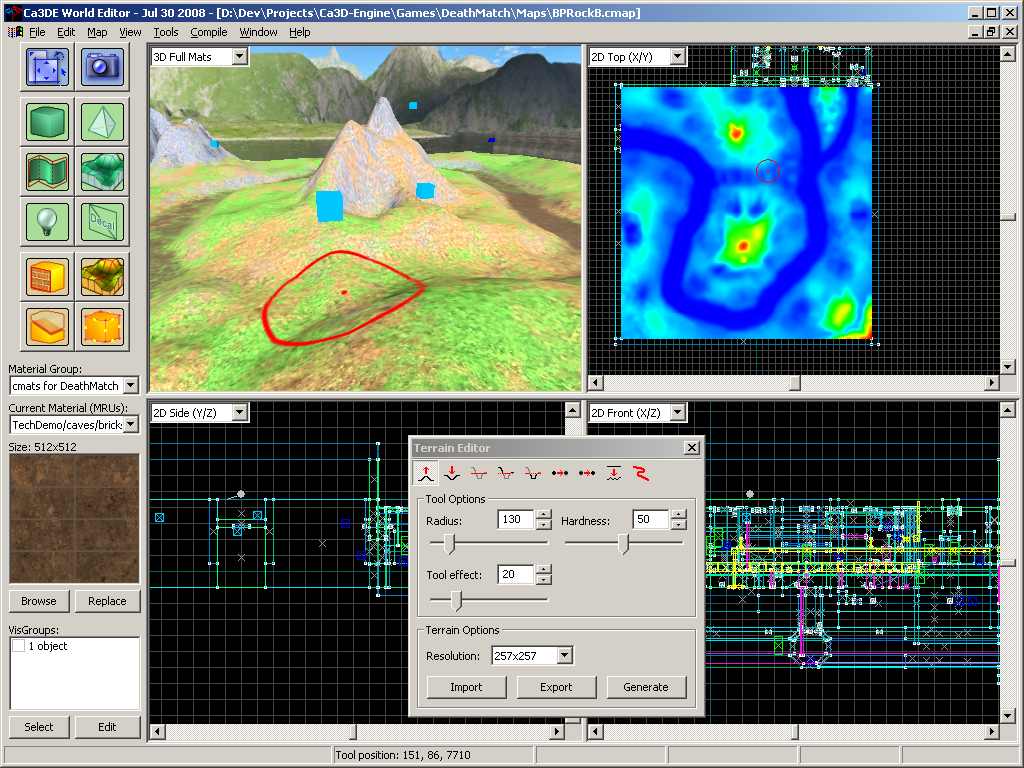 A screenshot of the terrain editor for the Cafu Engine. The terrain editor is a part of CaWE, the Cafu World Editor.